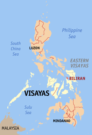 Map of the Philippines showing the location of Biliran